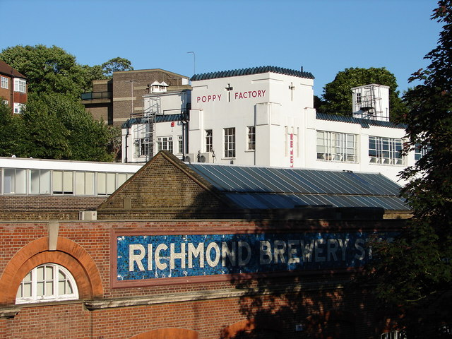 Poppy Factory, Richmond They shall not grow old as we who are left grow old. Age shall not weary them, nor the years condemn. At the going down of the sun and in the morning, we will remember them.